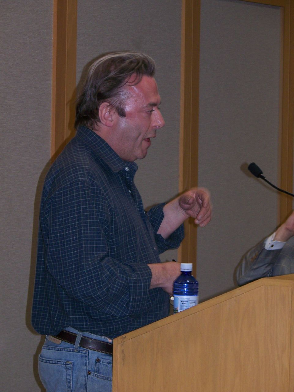 Christopher Hitchens at the Arkansas Literary Festival 2007.